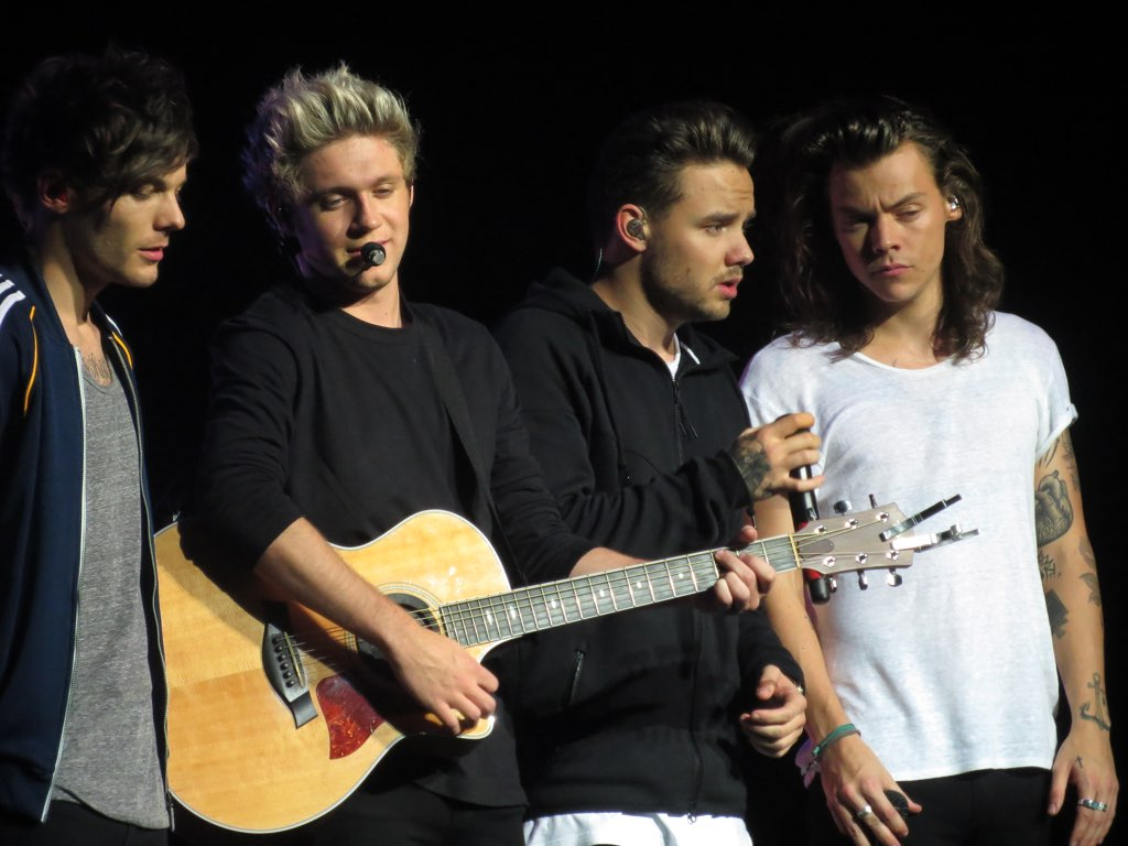 One Direction performing in Glasgow